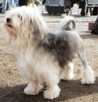 Black & silver Little Lion Dog male, International Champion.